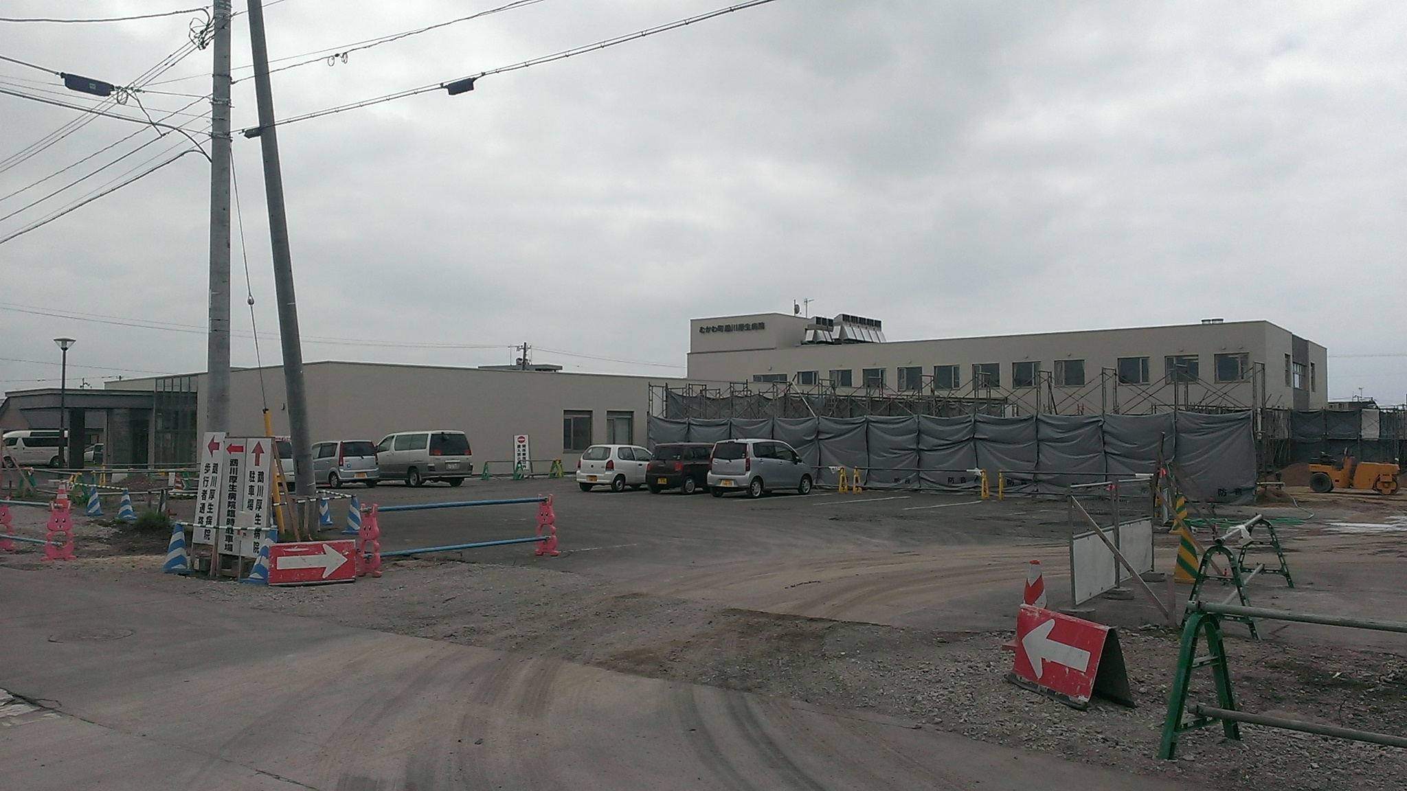 Hokkaido PWFAC Mukawa Kosei Hospital